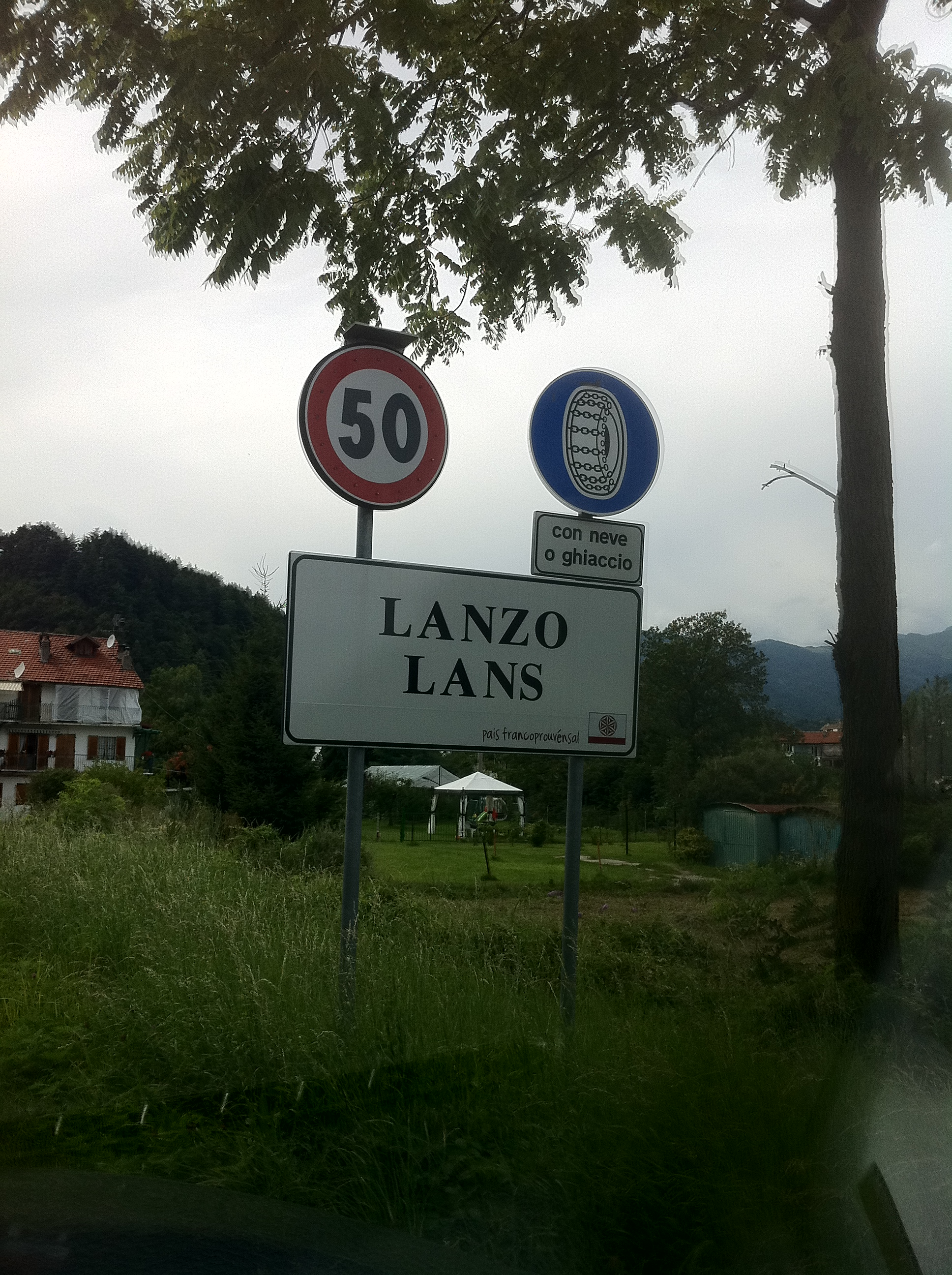 Bilingual road sign in Lanzo Torinese (TO), Italian and franco-provenzhal